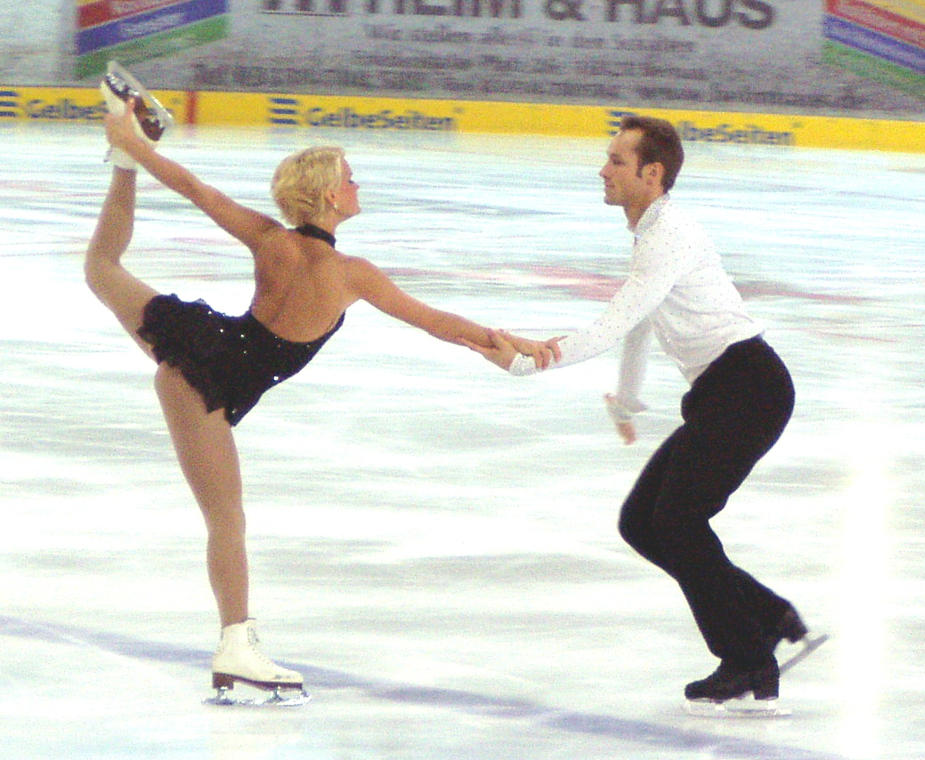 Rebecca Handke and Daniel Wende at their short program at the German championships 2006 in Berlin.